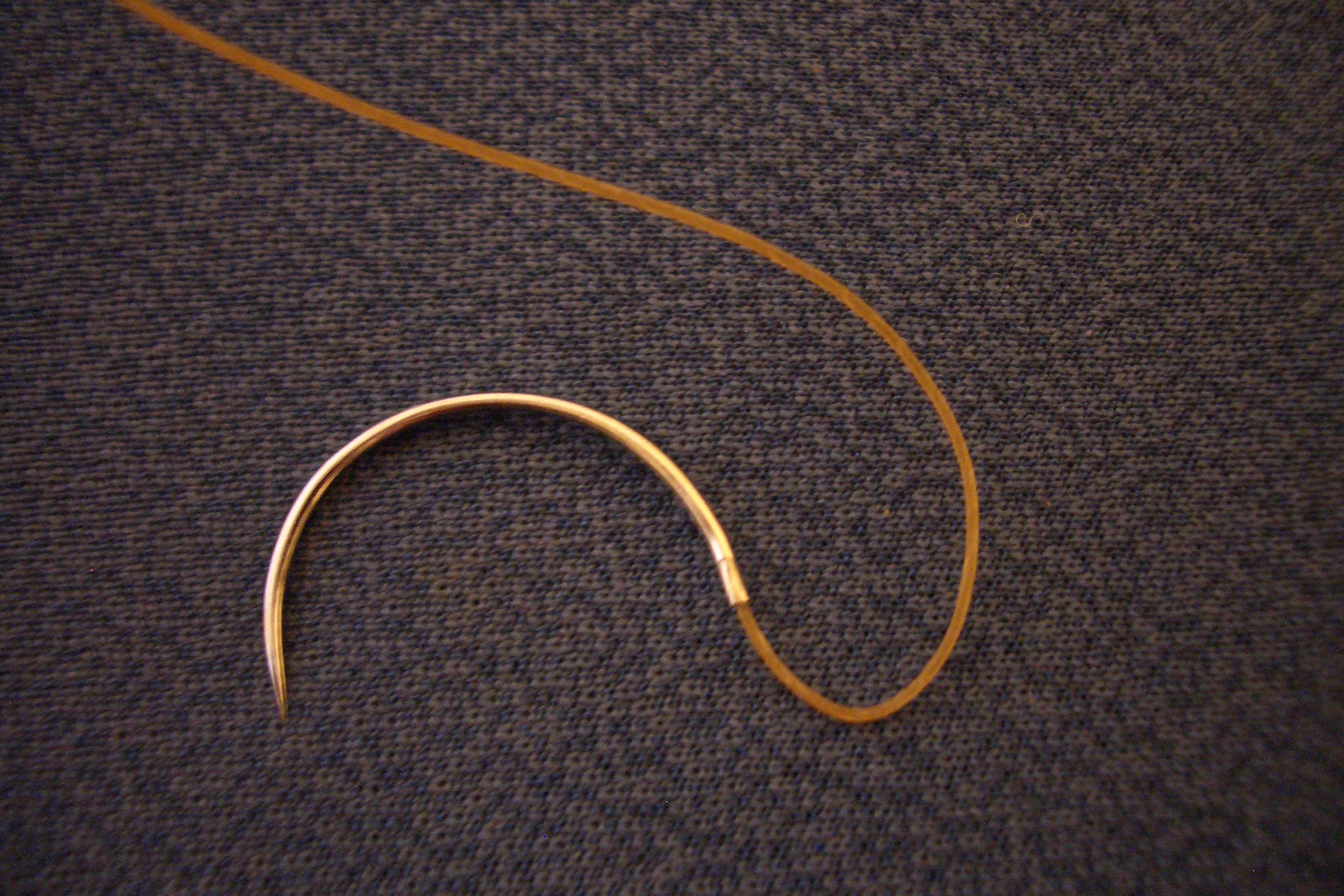 Surgical gut suture (Plain and Chromic) is an absorbable sterile surgical suture composed of purified connective tissue.